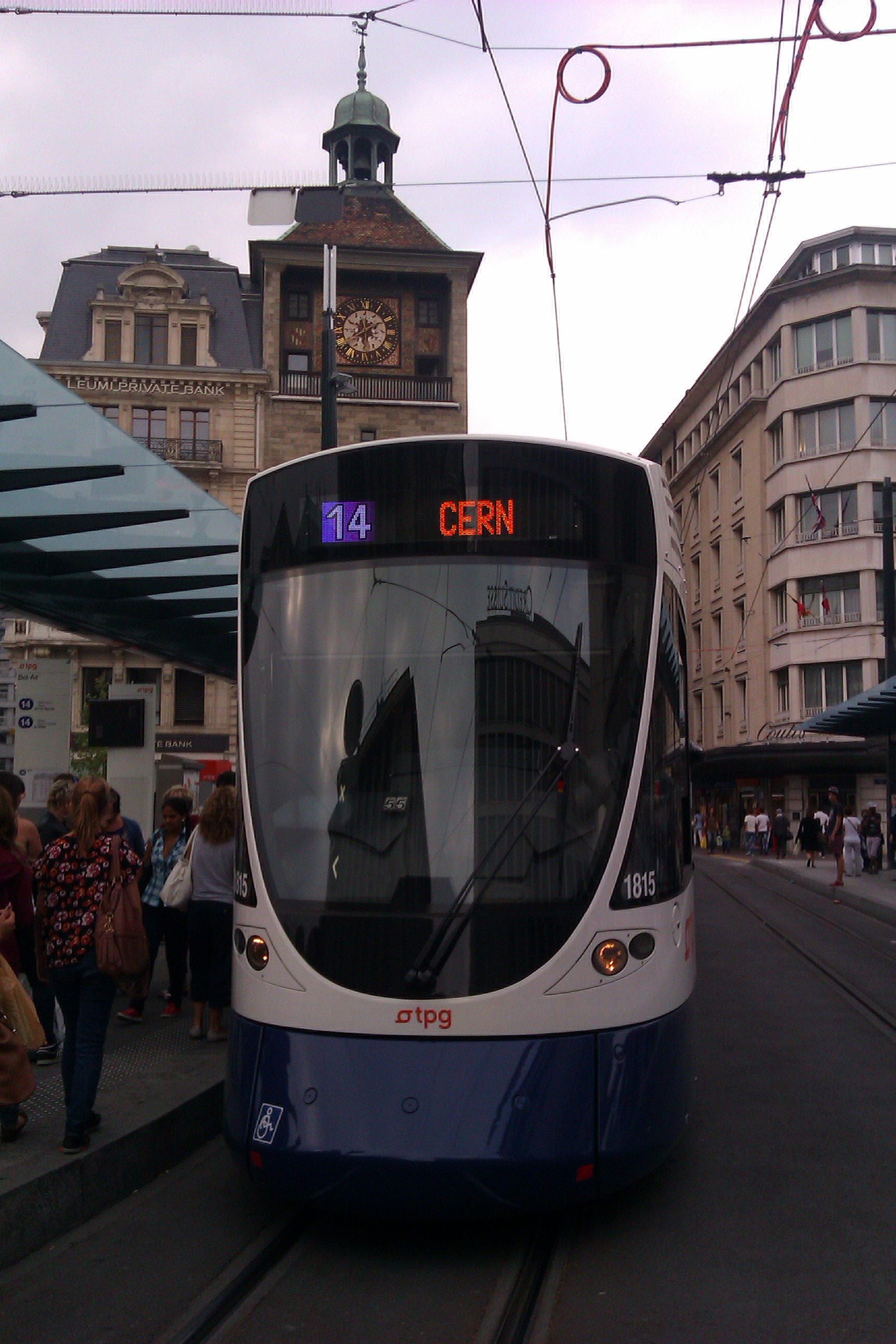 Tram line 14 to CERN at Bel Air in Geneva